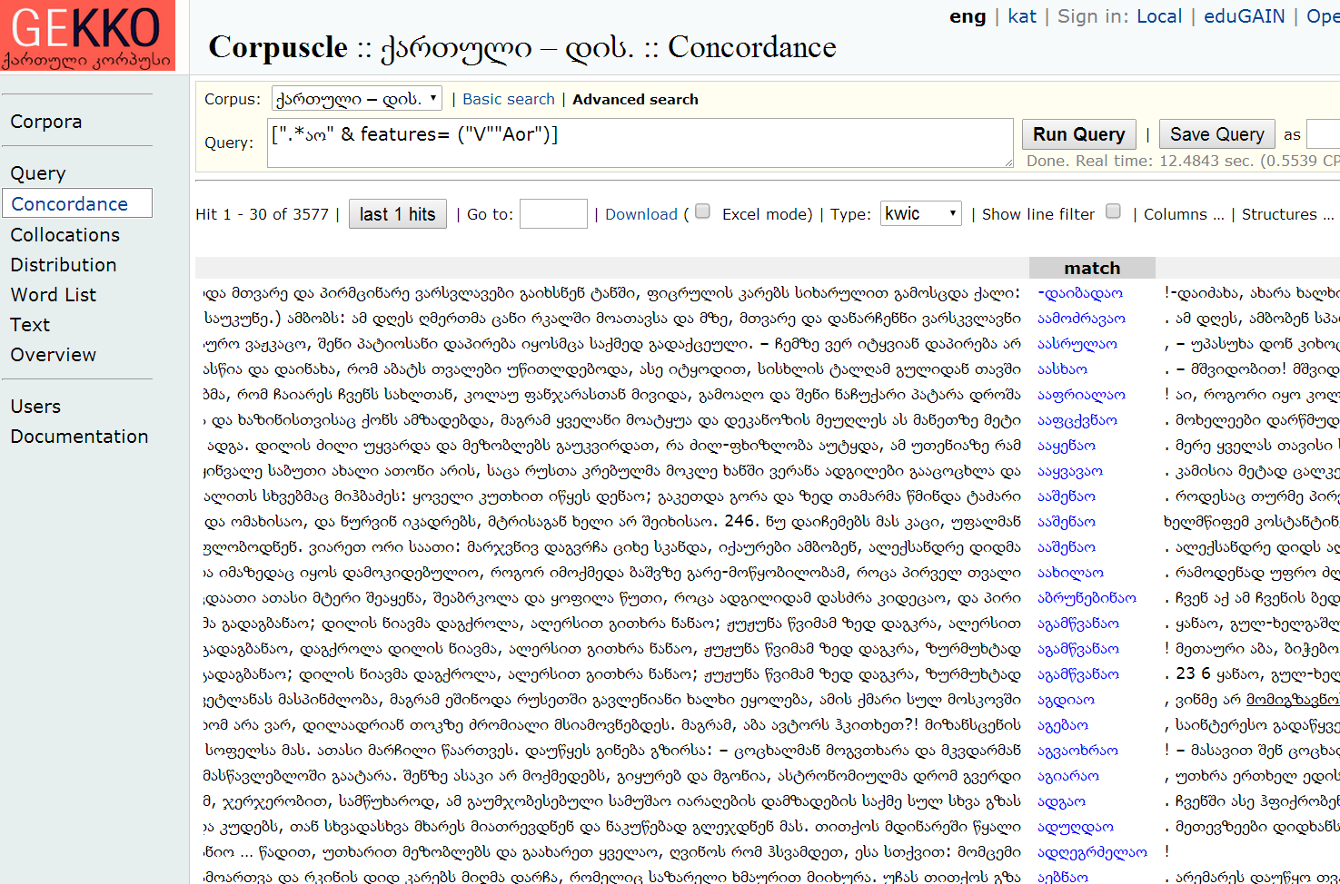 GEKKO-Corcordance